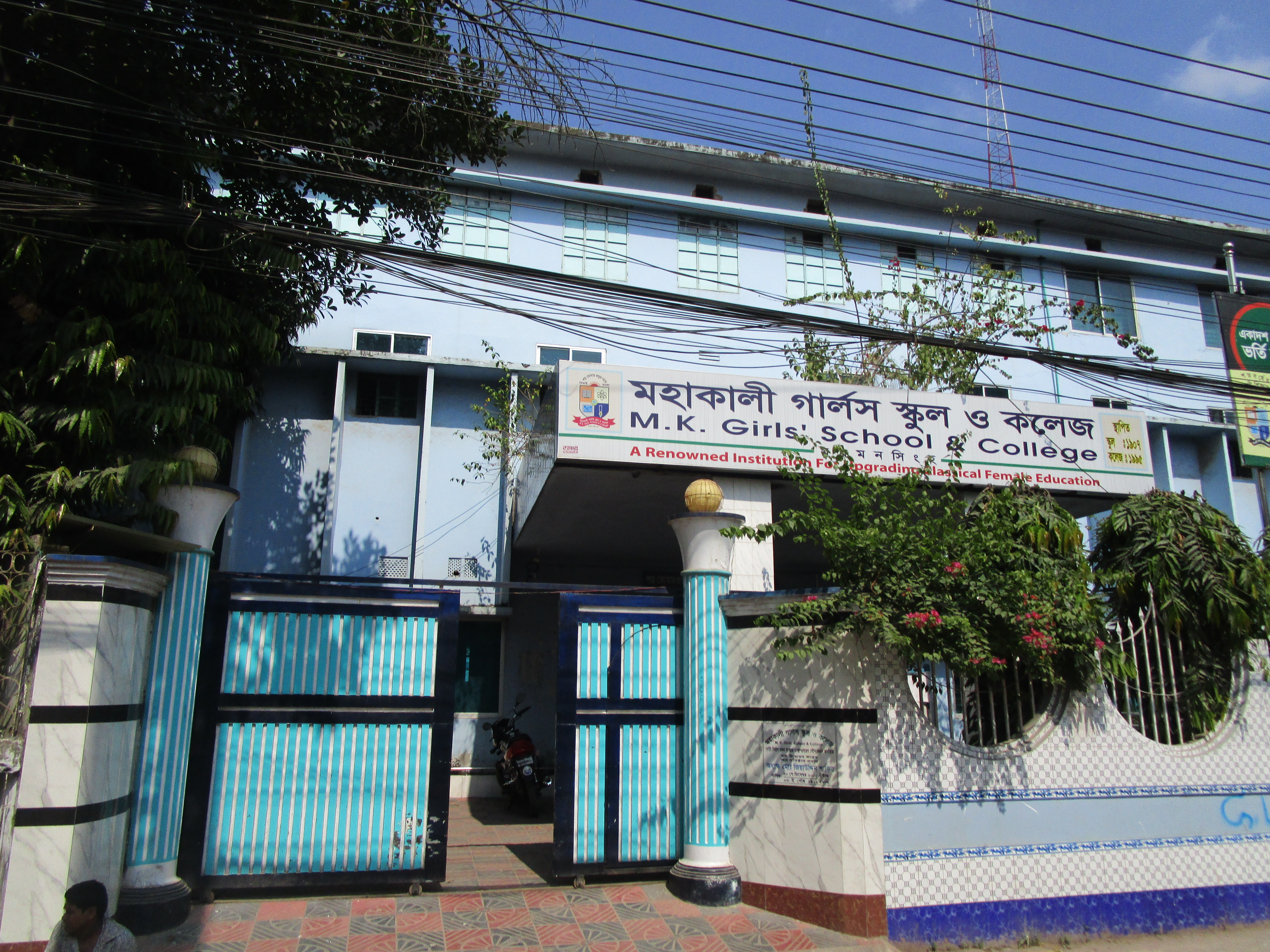 The main gate of Mahakali Girls School and College.